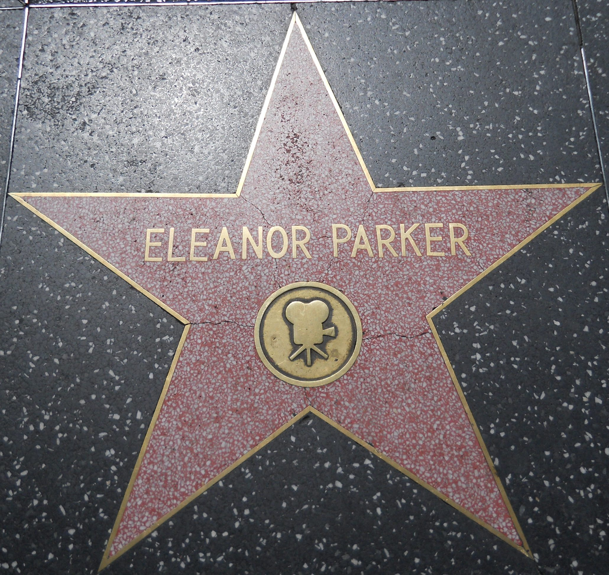 Eleanor Parker's star on the Hollywood Walk of Fame